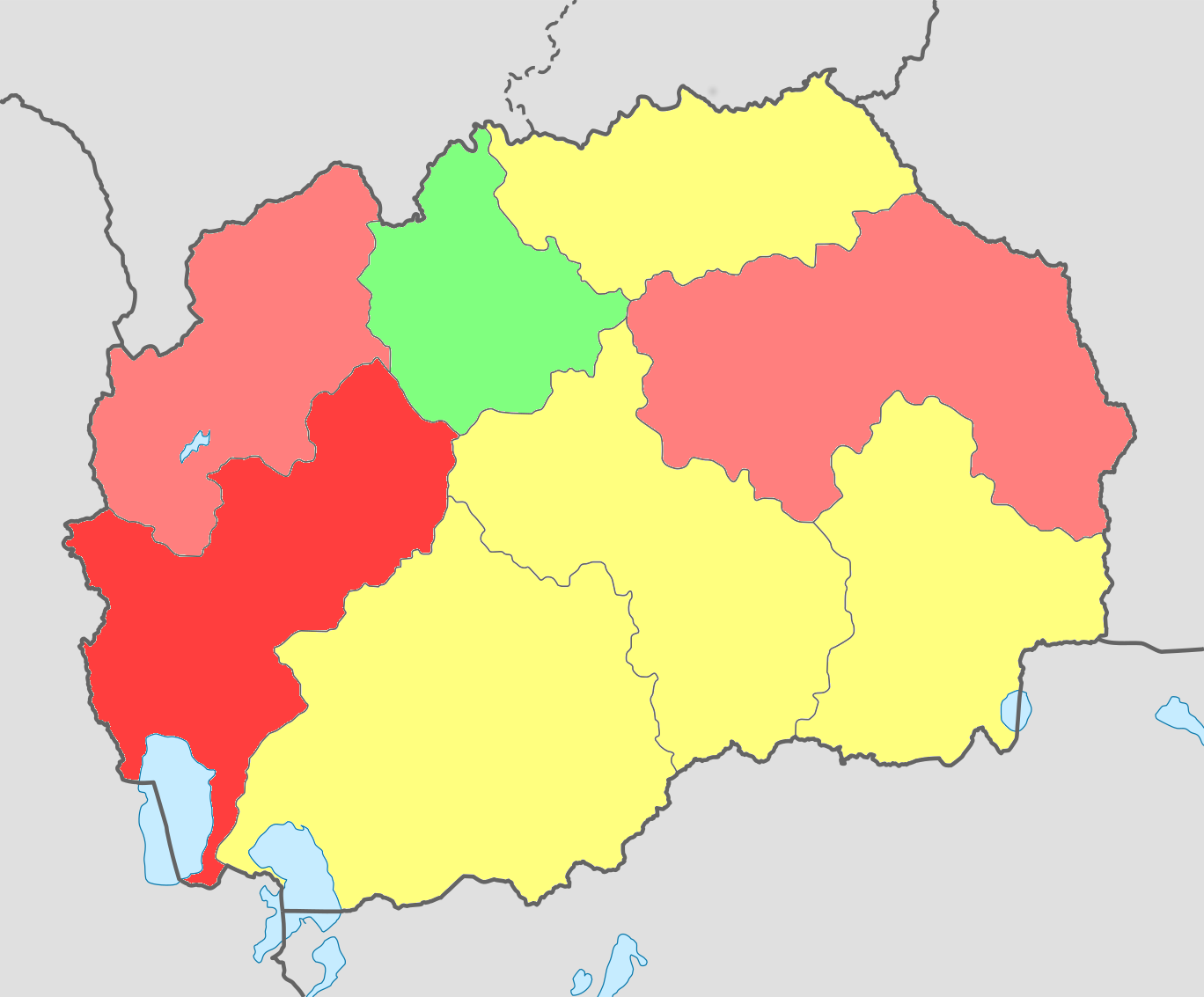 Data is from Eurostat